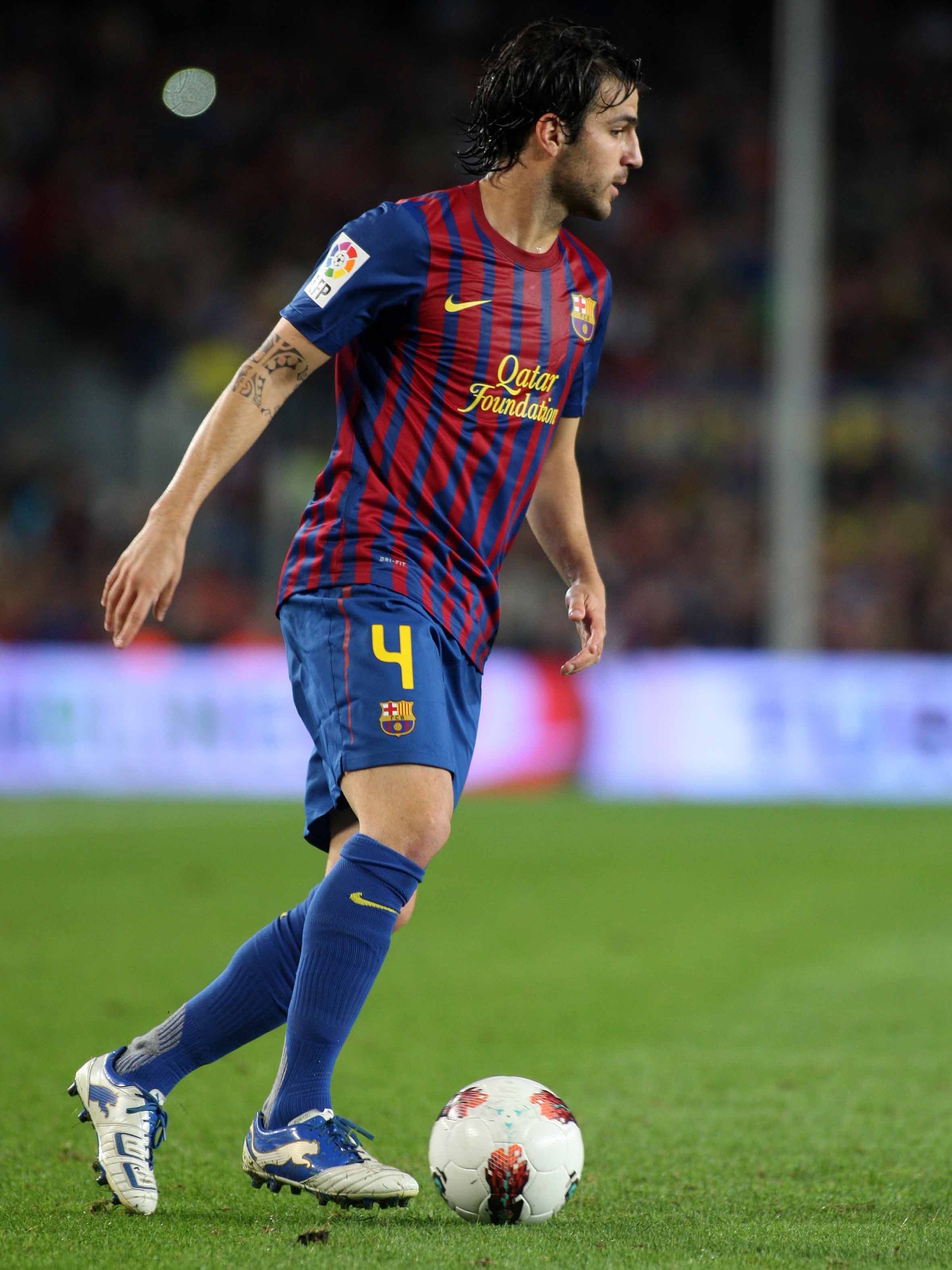 Cesc Fàbregas playing for FC Bacelona away against Sevilla FC.